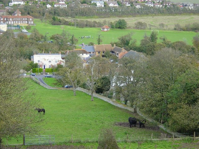 Ovingdean from Cattle Hill. Top left is Ovingdean Hall School and playing field.